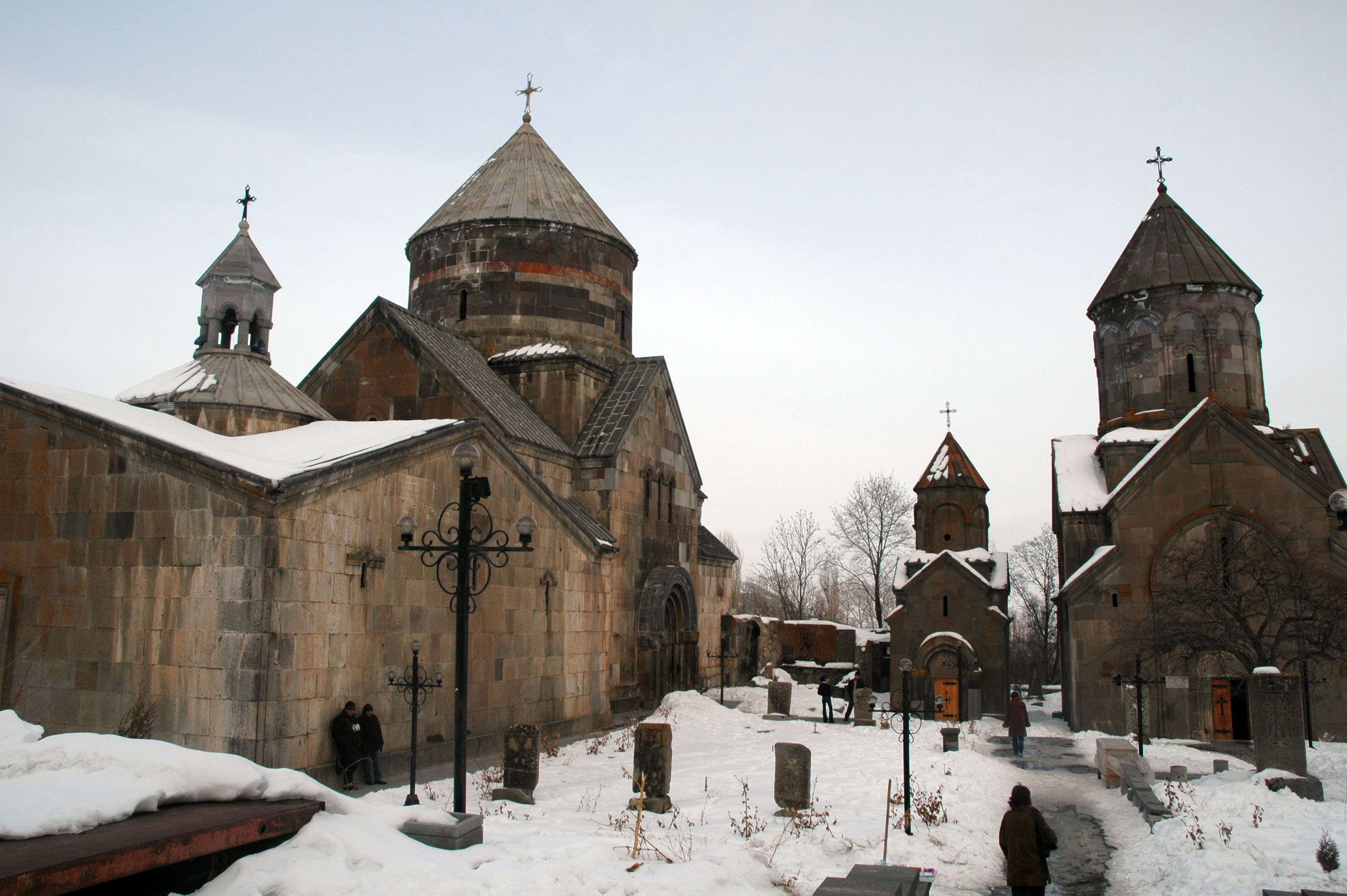 Kecharis Monastery in Armenia. On The left side: Gavit